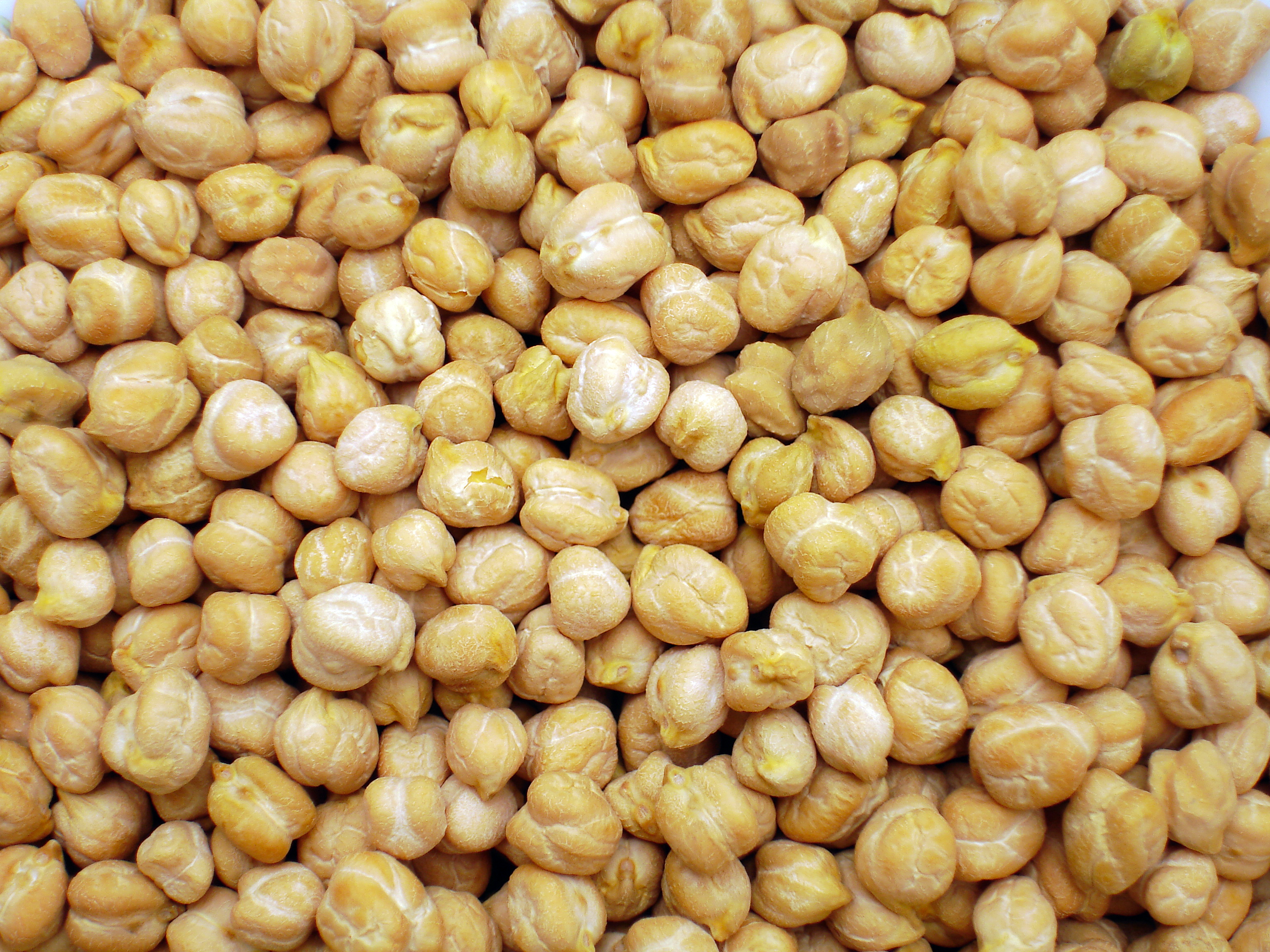 A legume is a plant or its fruit or seed in the family Fabaceae (or Leguminosae).